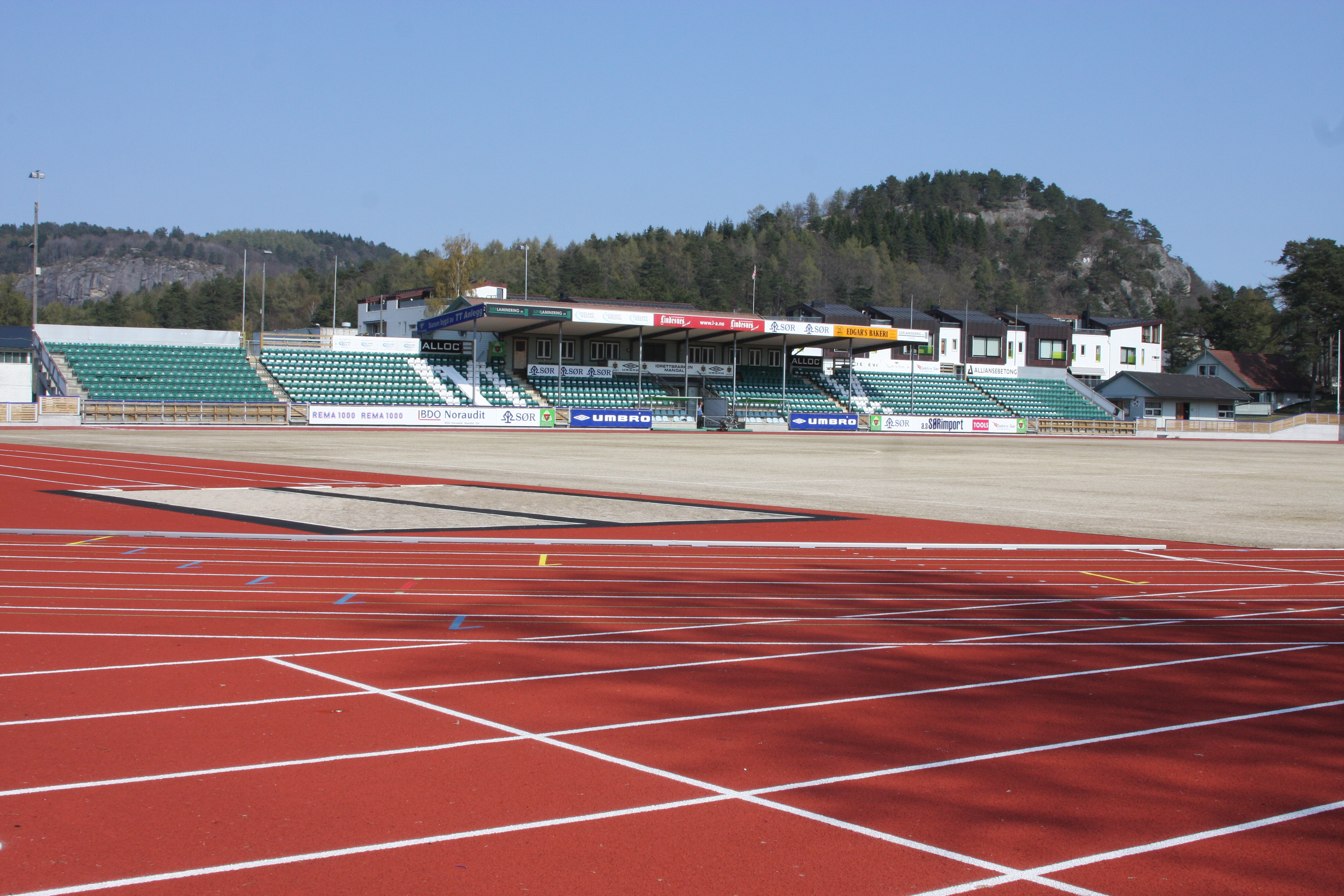 Vestnes Stadium, where FK Mandalskameratene play their home matches. Mandal, Vest-Agder, Norway.